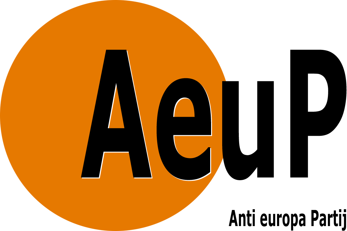 Logo of the Anti European Party, that participated in the Dutch general elections of 2012